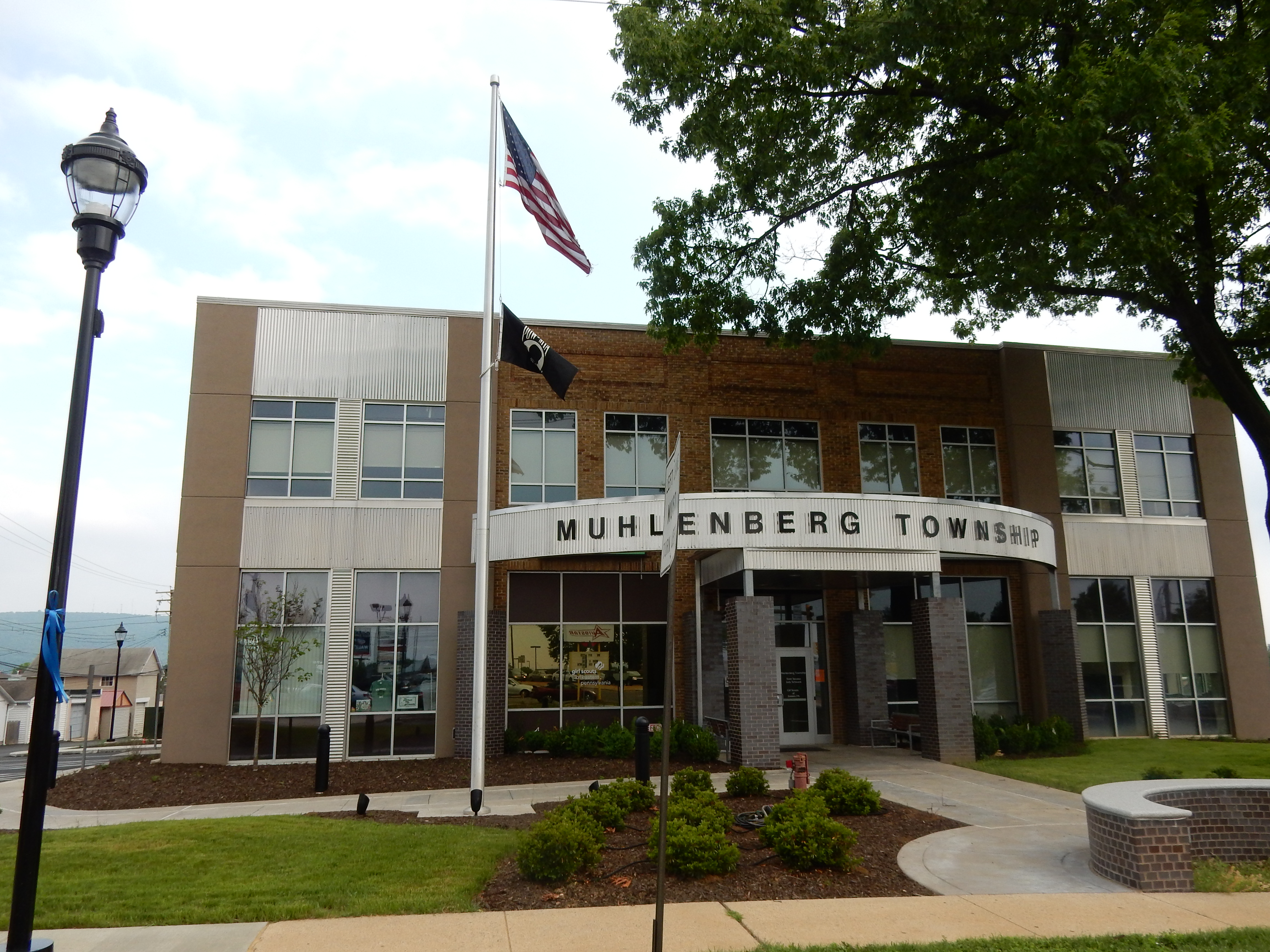 Township Hall, Muhlenberg Township, Berks County, Pennsylvania. 210 George Street, Reading.